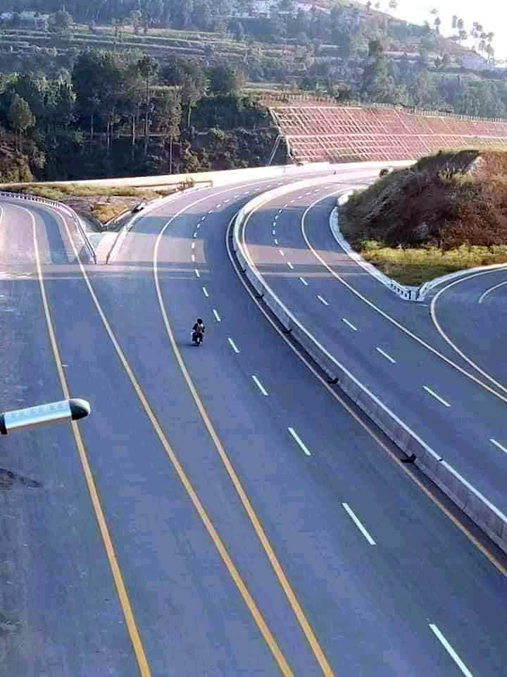 Hazara Motorway (M-15) aka Hazara Expressway (E-35) under construction at Mansehra, Mansehra District, KPK